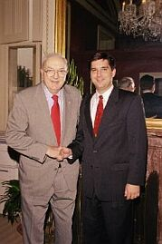 Jesse Helms with former staffer, David Rouzer.